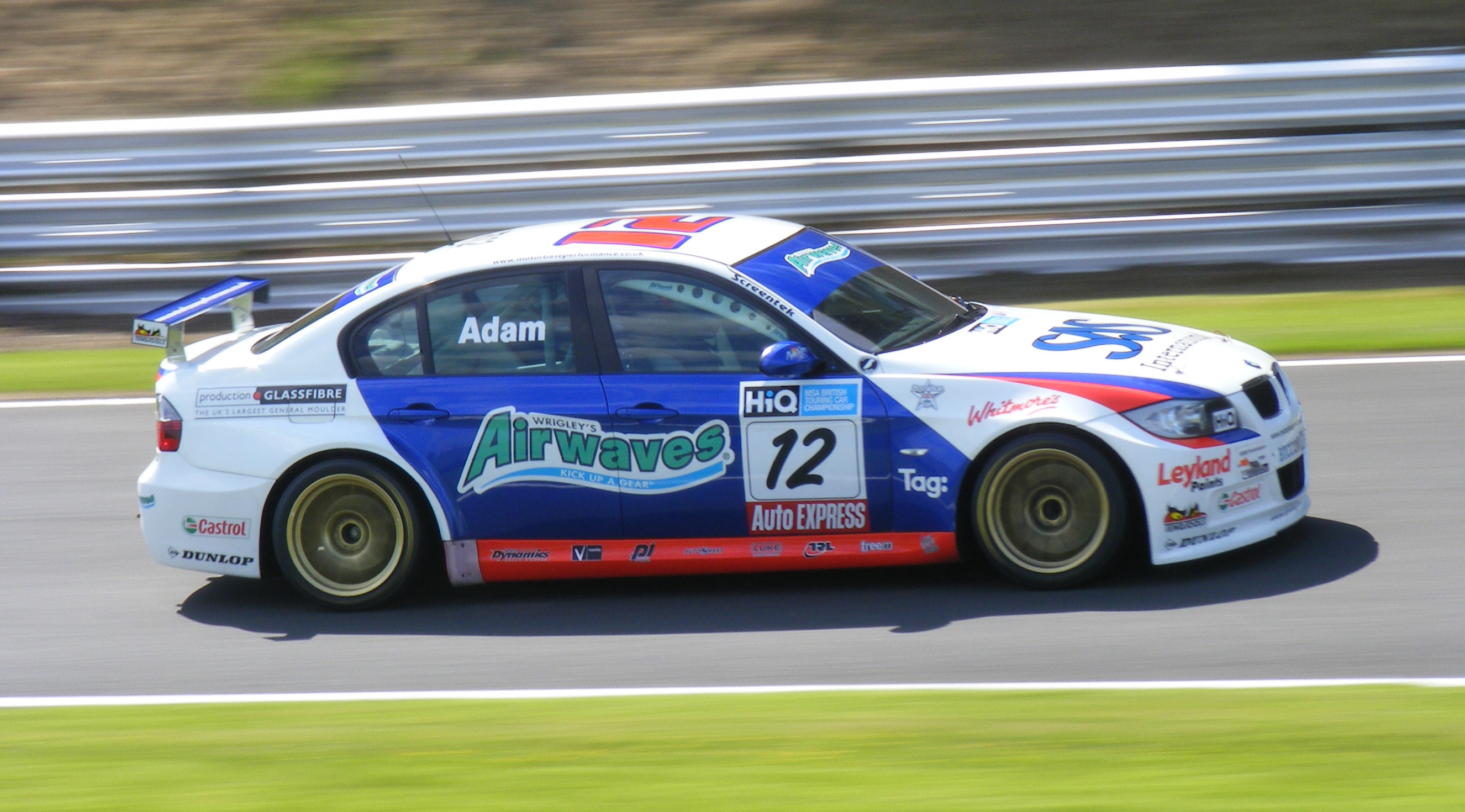 Jonathan Adam driving BMW 320si at Oulton Park (2009 BTCC season).